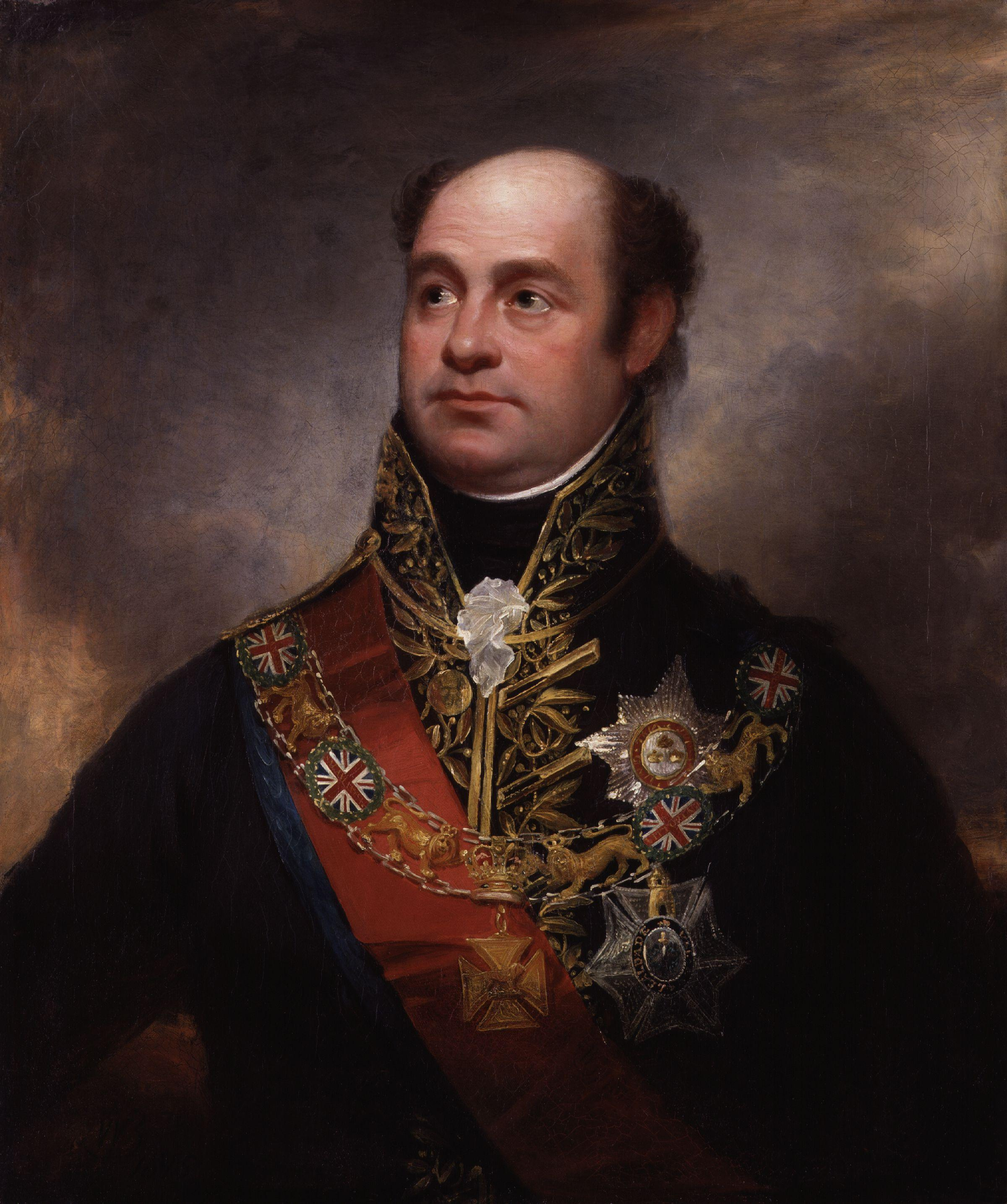 All images in this batch have been confirmed as author died before 1939 according to the official death date listed by the NPG.